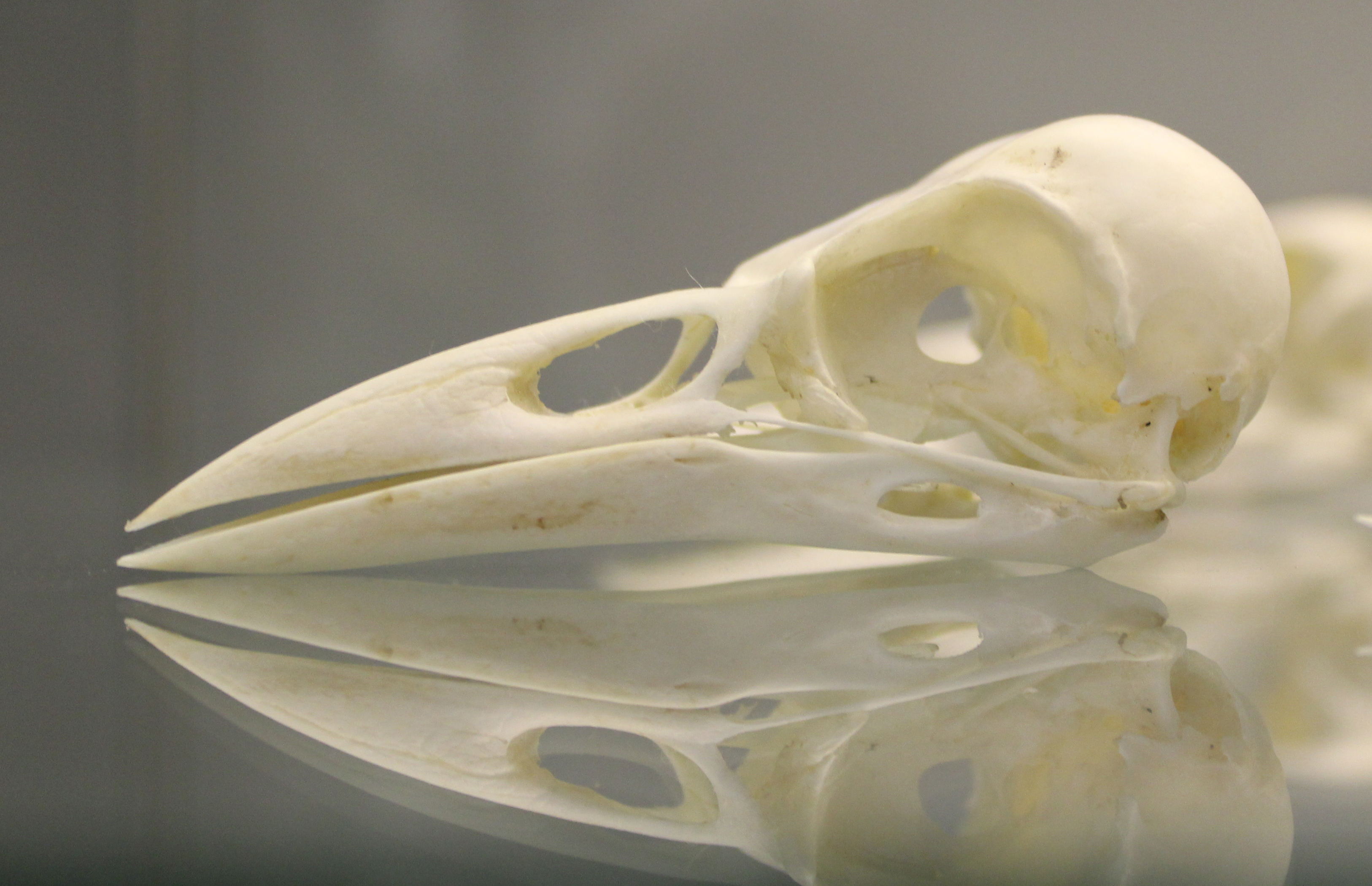 American Crow (Corvus brachyrhynchos) skull at the Royal Veterinary College anatomy museum